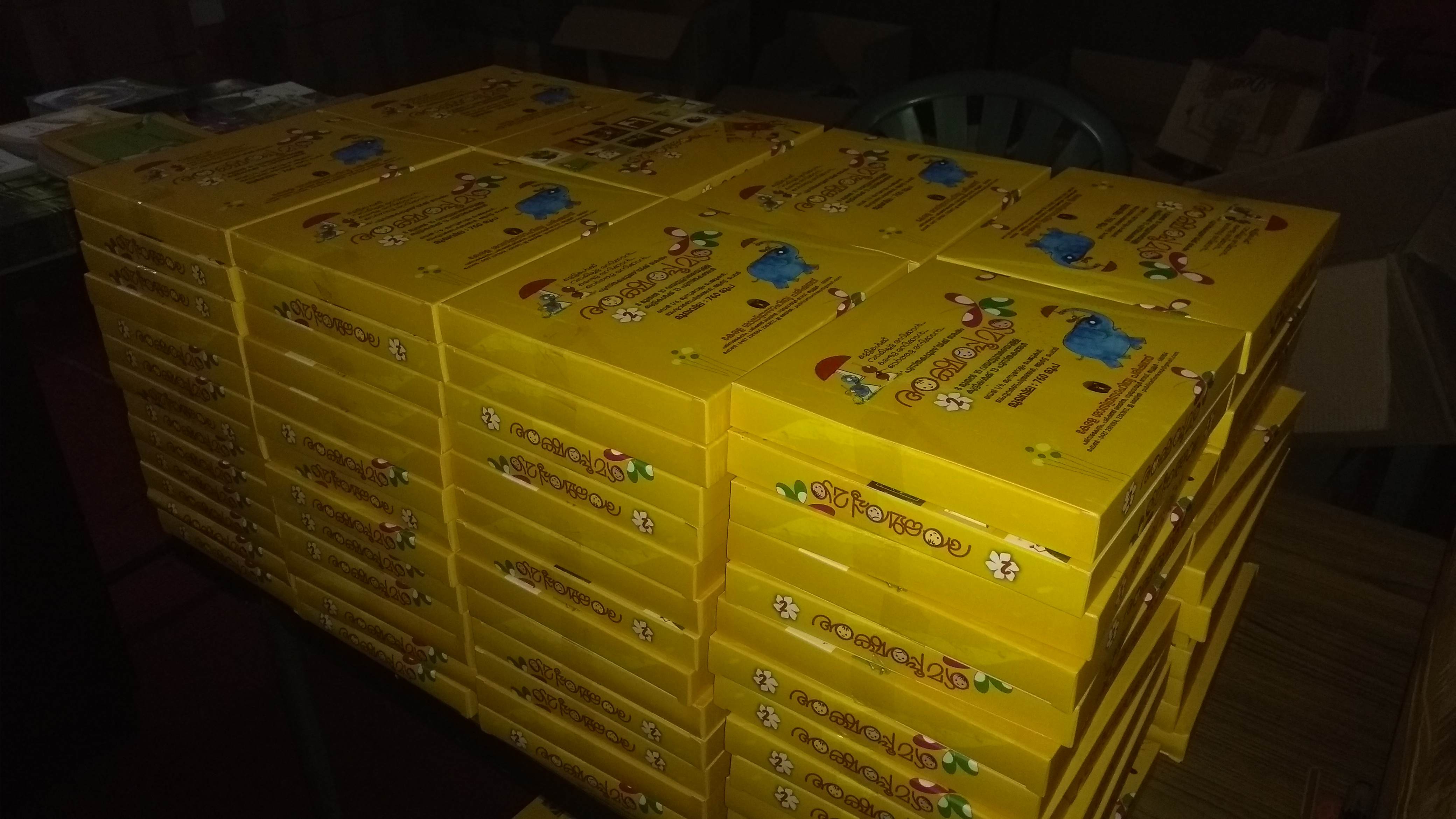 books from Kerala sasthra sahithya parishath